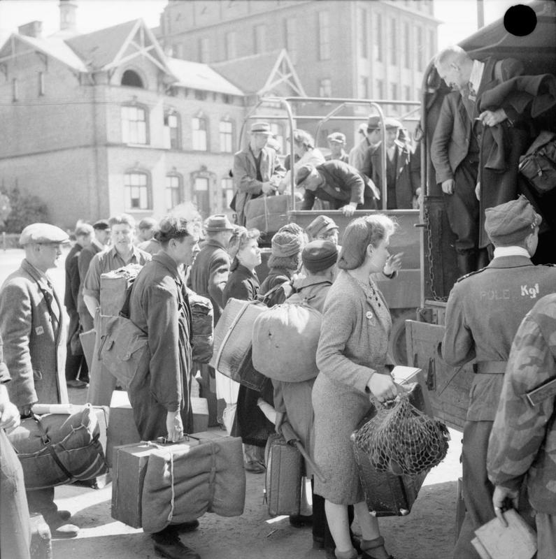 Displaced Persons and Refugees in Germany The Displaced Persons camp within the grounds of Hamburg Zoo was build by the Blohm & Voss company during WWII to house the forced labourers that worked in their factory. The camp was taken over by the British on 5 May 1945 and quickly given over as an arrivals centre for displaced persons. On arrival displaced persons were organised into groups of 50 for processing through the reception centre. They were dusted with anti-louse powder and given a registration card (D.P.3) bearing such details as their name, nationality and place of residence. All were then allotted a bed in one of the accommodation huts. In times of overflow a large former air raid shelter was used as overspill night accommodation. After a few days at the camp and when transport was available displaced persons were sent to the appropriate 'National Camp' ready for repatriation to their country of origin. On 4 May 1945, the German authorities estimated there were 45,000 displaced persons in Hamburg. This figure was later increased to 120,000 by 521 Detachment, Military Government, the British formation responsible for all displaced persons in the city.